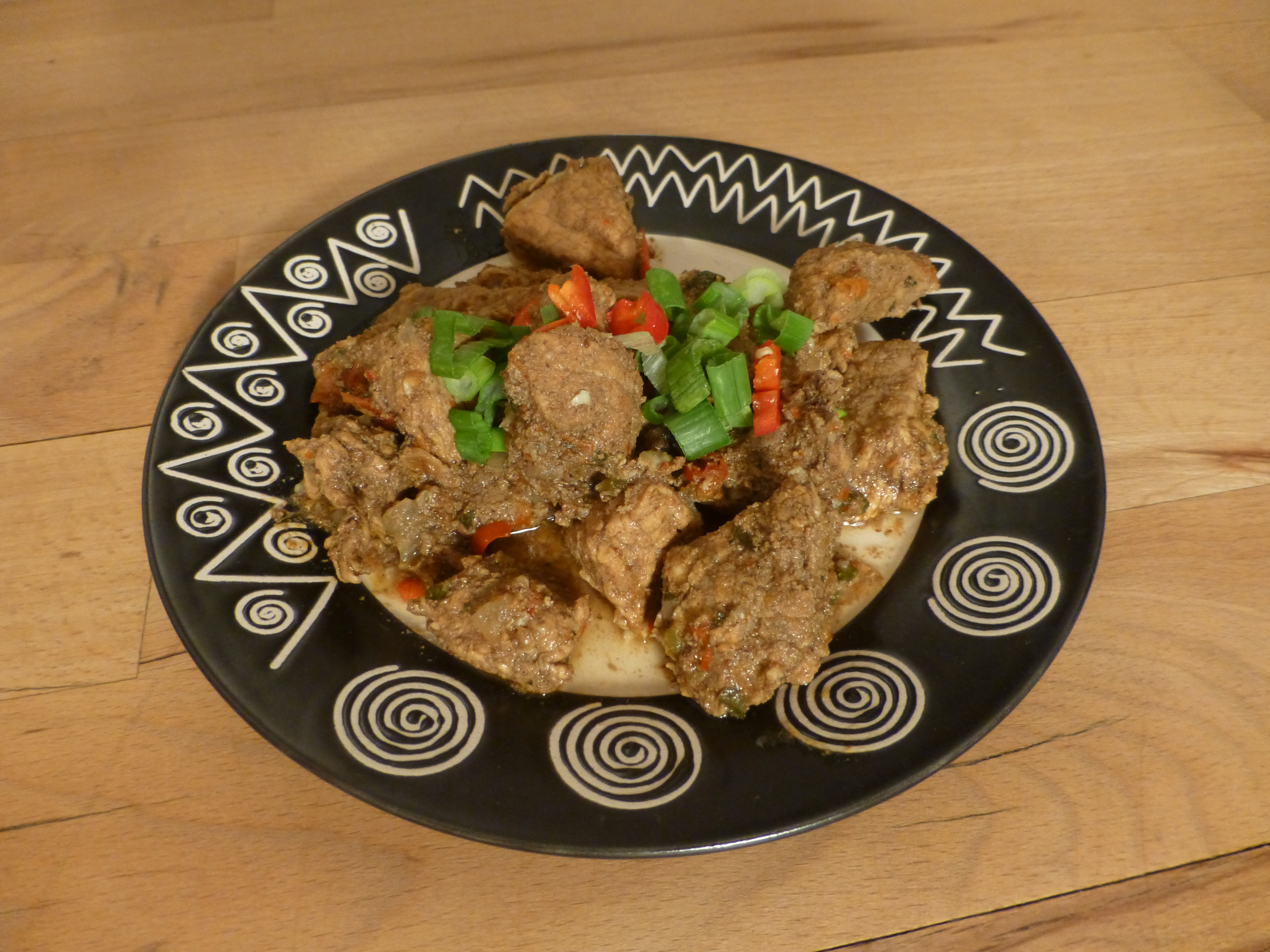 Geera pork. Tiny, complimentary snack served in bars in Trinidad to stimulate the guests' thirst.